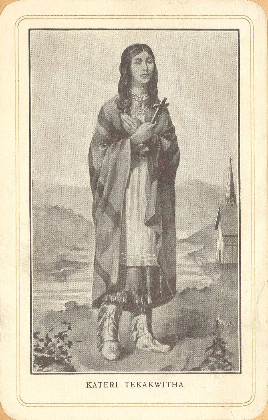 First North American indigenous person to be canonized by the Roman Catholic Church; b. 1656 at Ossernenon (Auriesville, N.Y.), daughter of an Algonkin and a Mohawk; d. 1680 near Montreal.